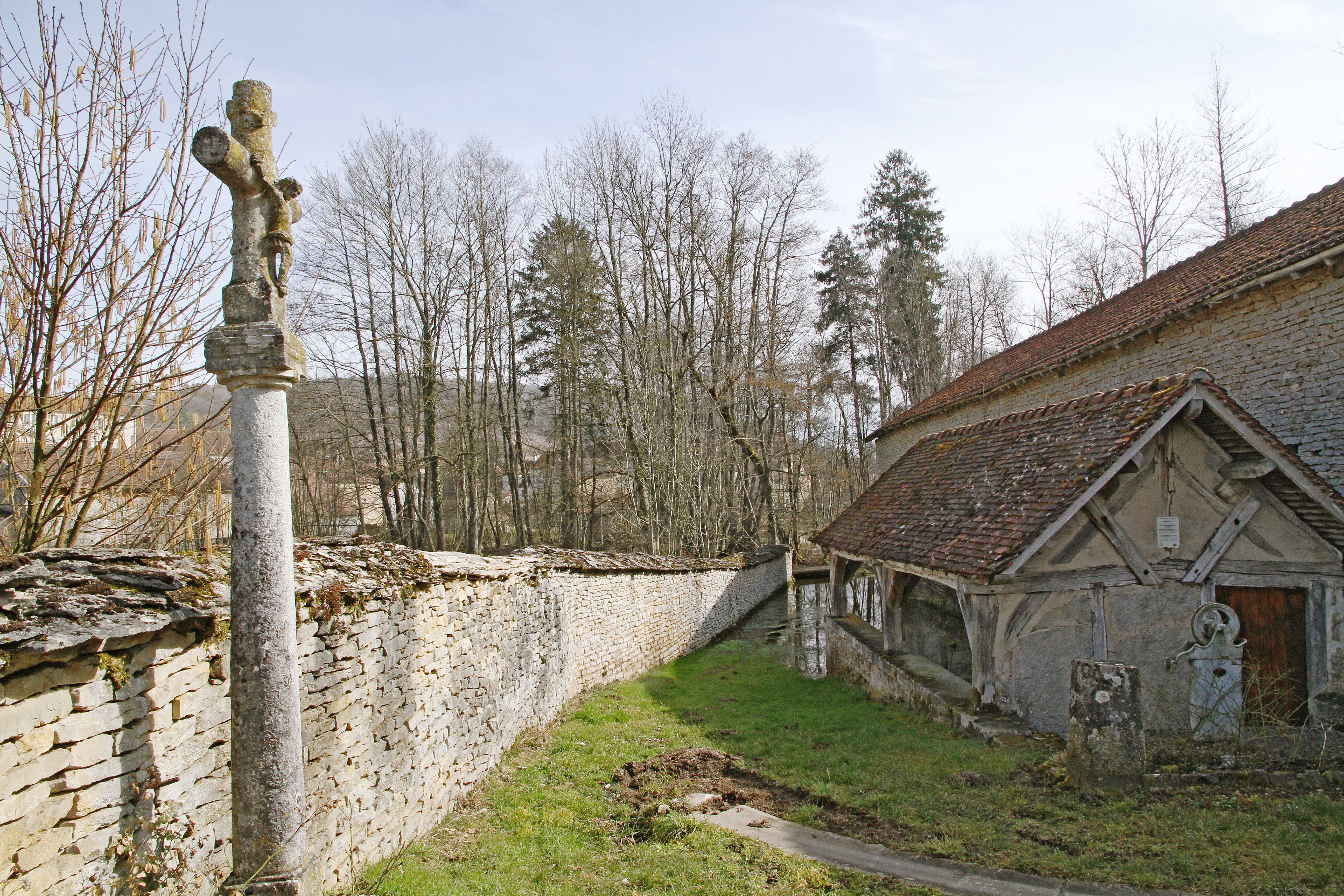 lavoir (classé MH IA21000963) et croix (classée MH IA21000971) du 19ème siècle